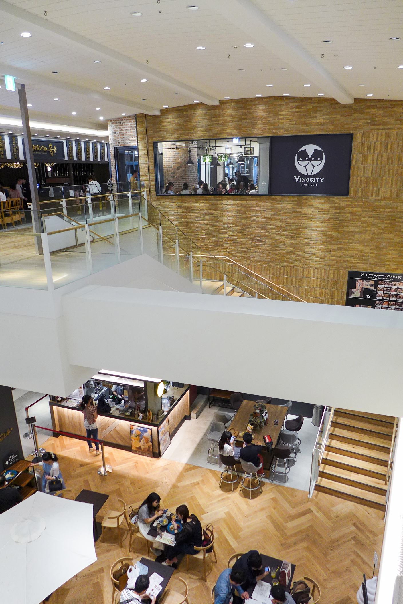 JR Gate Tower Level 12-13 Restaurants Void